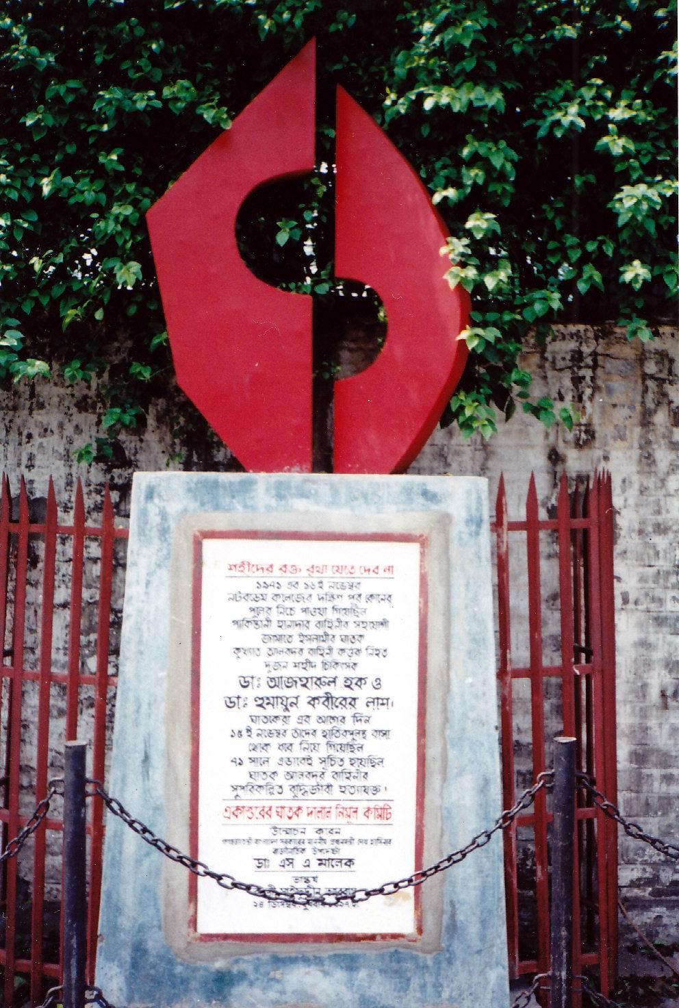 The Monument founded in front of the culvert near Notre Dame College where Dr. Azhaul Haque and Humayun Kabir were corpse were found on 16 November'1971